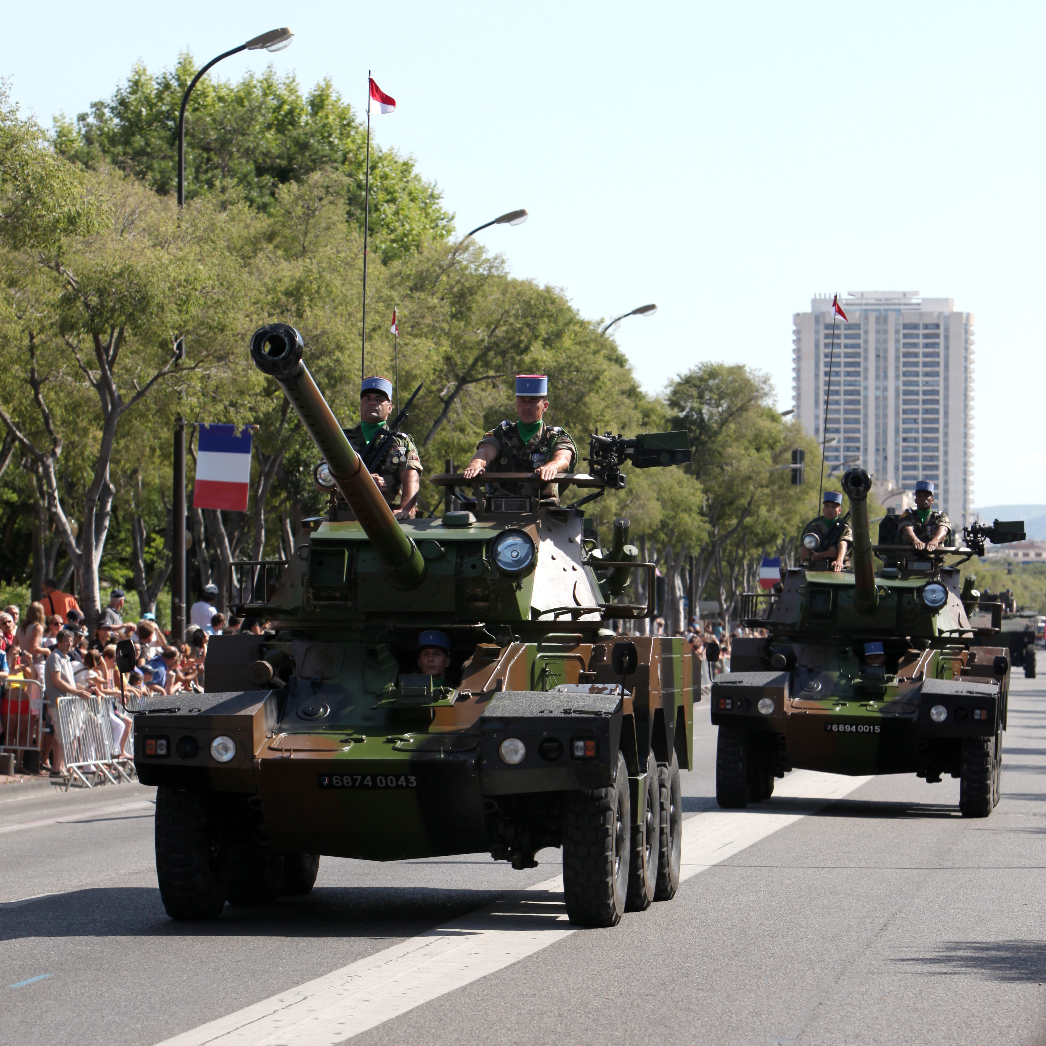 ERC 90 Sagaie of the 1er régiment de chasseurs d'Afrique during the military parade of 14 July 2012 in Marseille. The making of this document was supported by Wikimédia France. (Submit your project!)